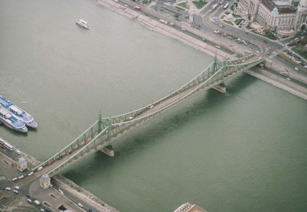 Liberty-Bridge - Budapest - Hungary - Europe